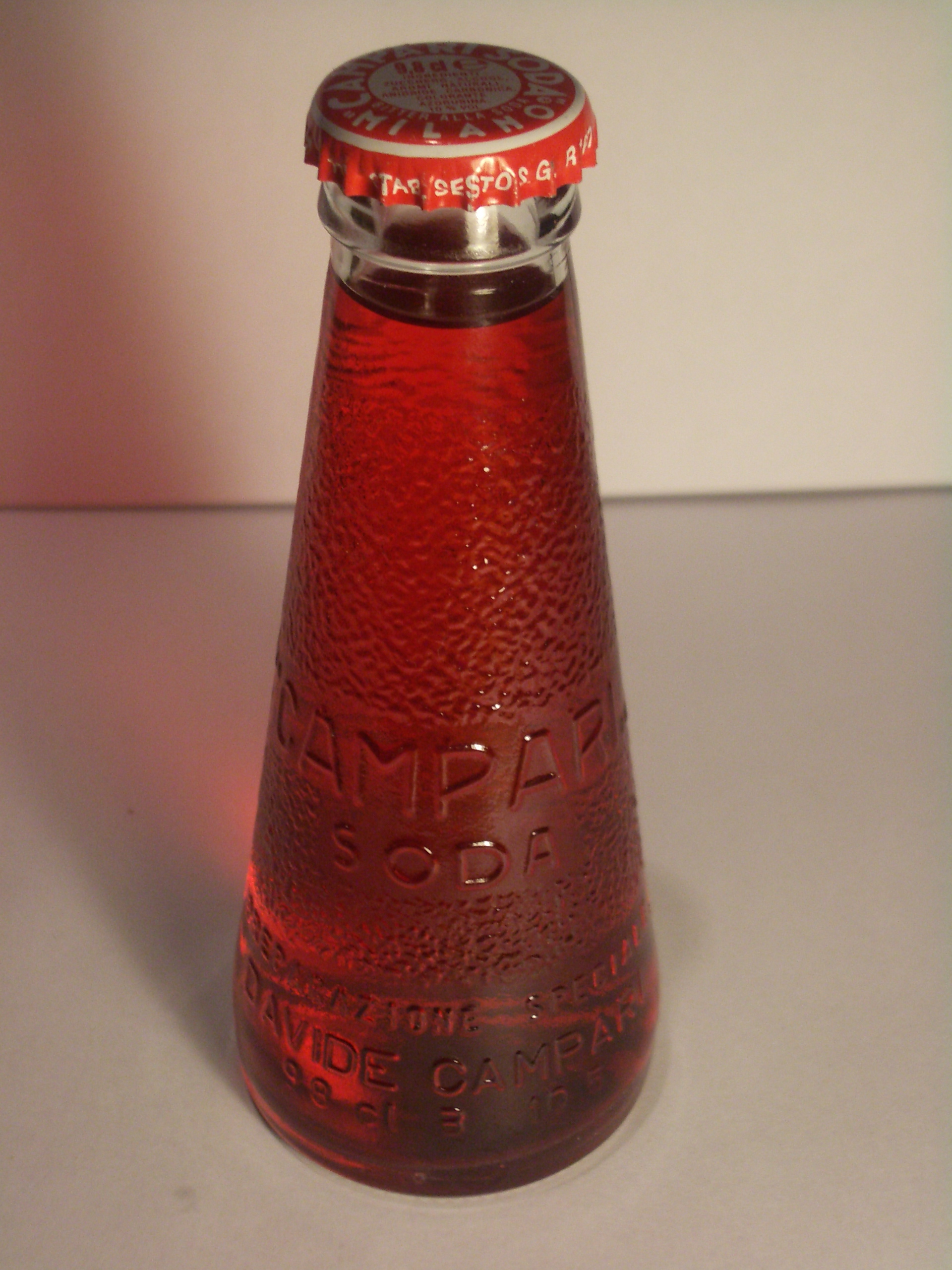 Campari and soda, original bottle design 1930s, by Fortunato Depero.